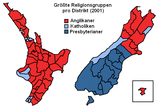 New Zealand's largest religious denominations by territorial authority